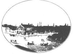 The original Northwest Turner's Club building in Davenport, Iowa. It was destroyed in a fire in 1882.